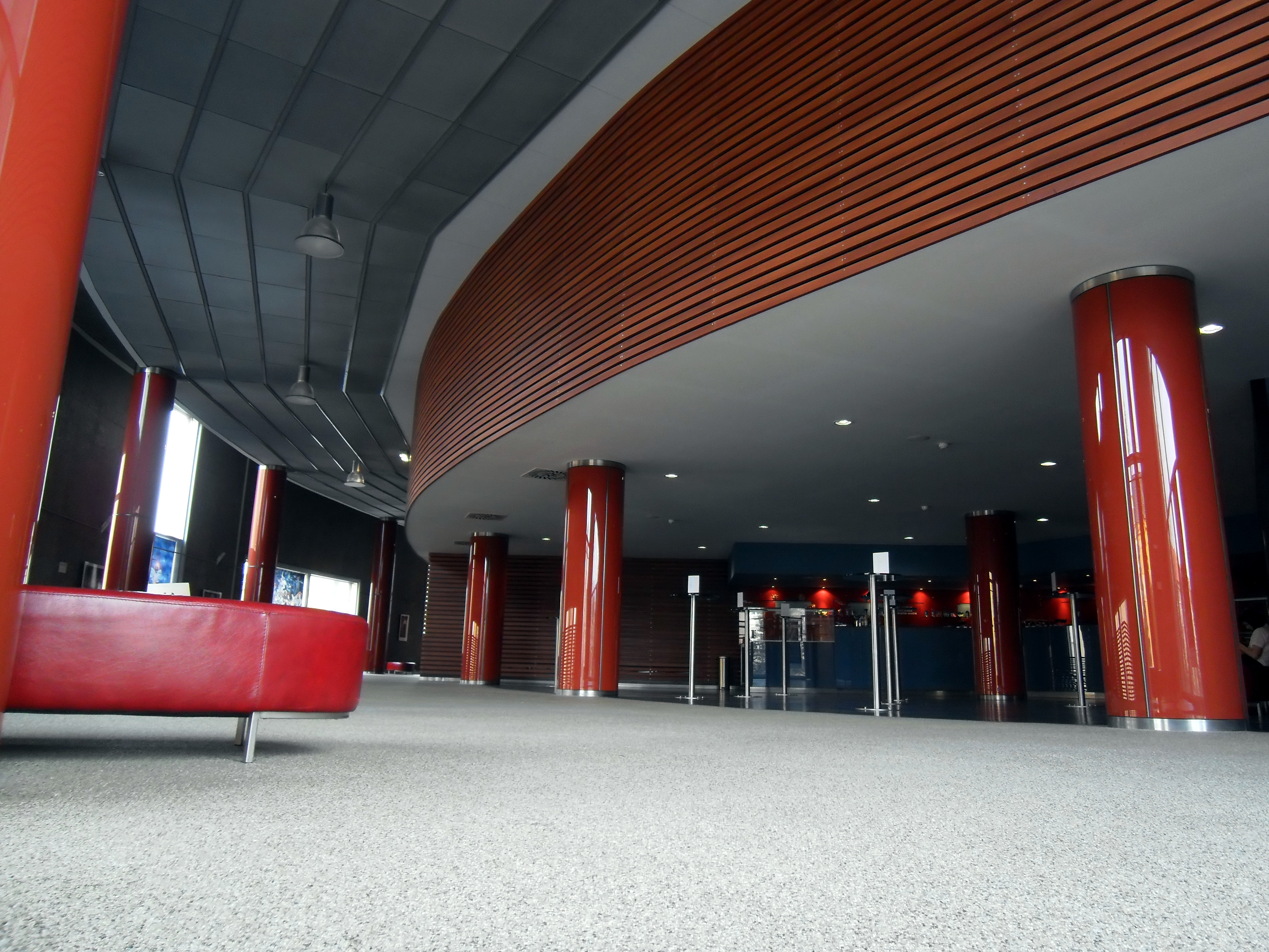 MDB - foyer